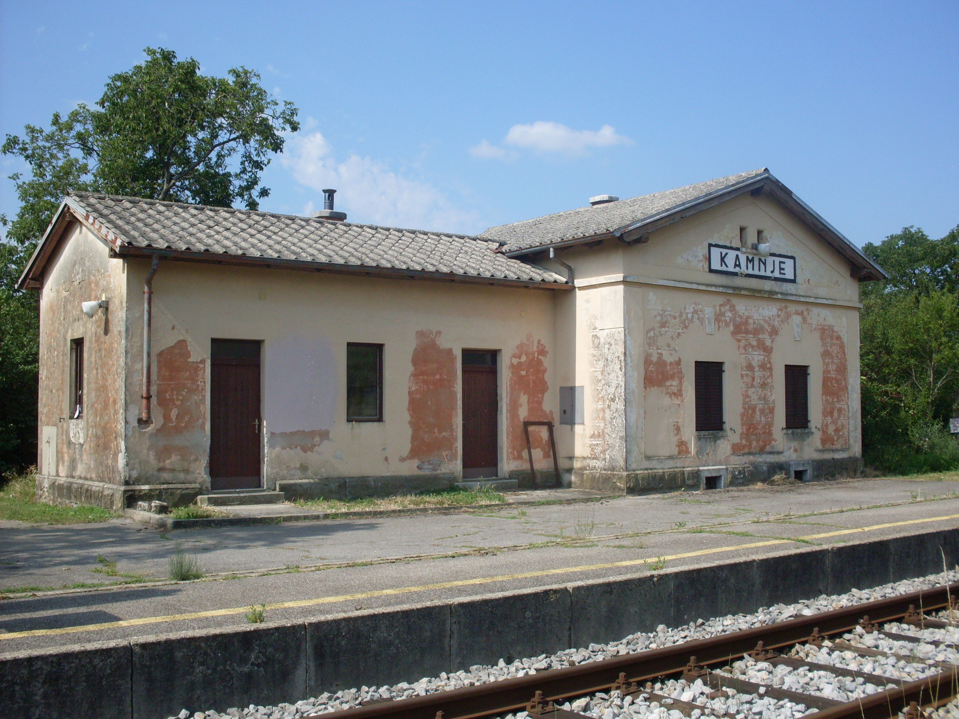 Railway halt Kamnje, located between Potoče and Brje